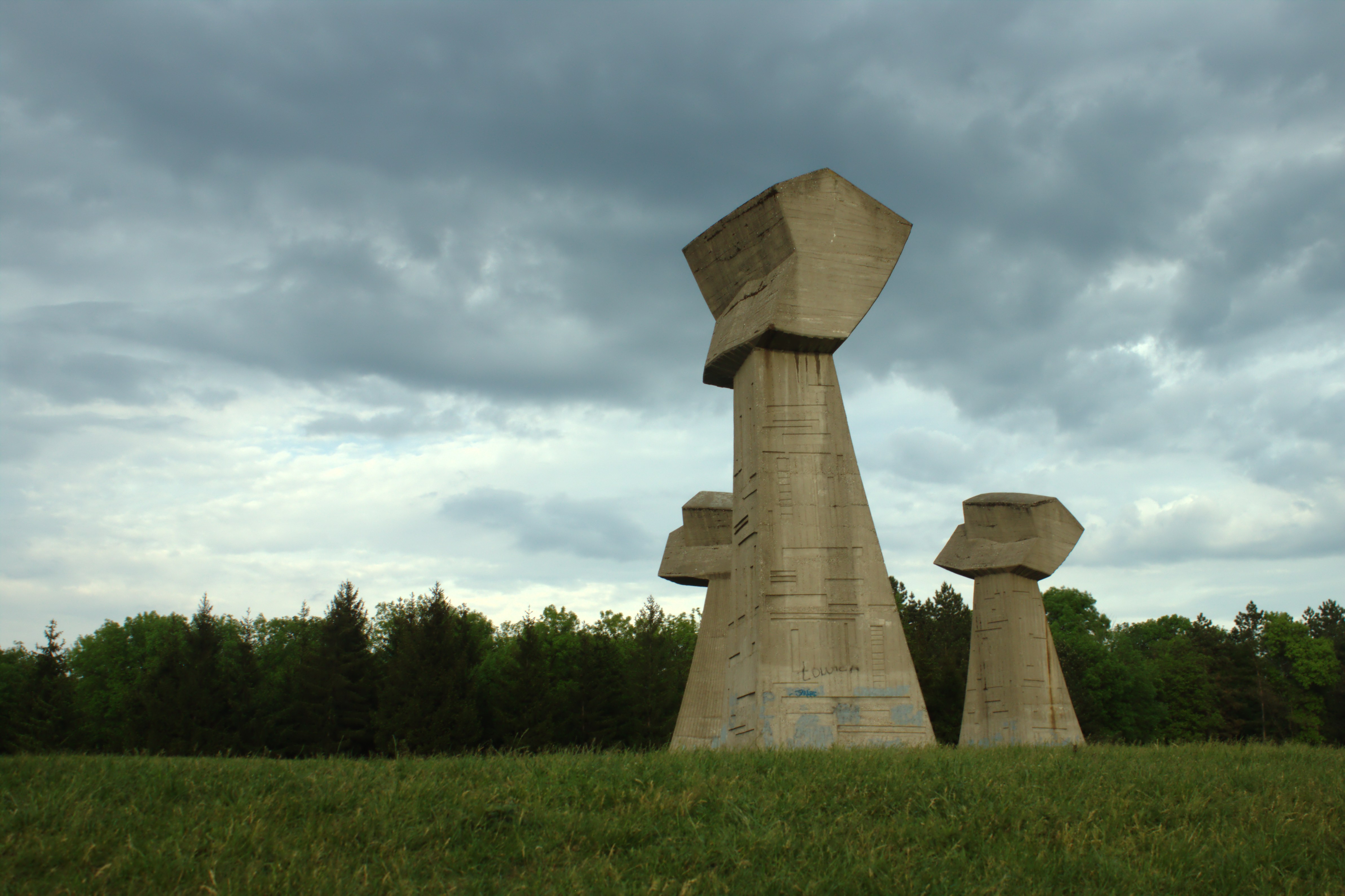 Bubanj Memorial Park in Niš, located on a place, where axis soldiers during WWII executed partisans and other people